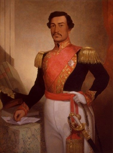 Portrait of King Kamehameha III by John Mix Stanley. This portrait alongside a companion portrait of Queen Kalama hangs in Grand Hall of Iolani Palace.